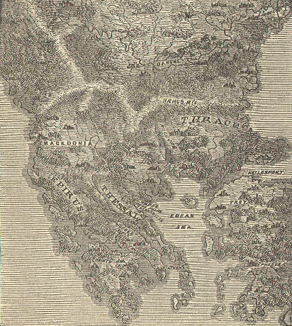 Map of Balkan from 1902 book of Jacob Abbott Alexander the Great